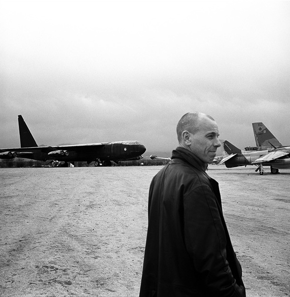 Pyke in Cal